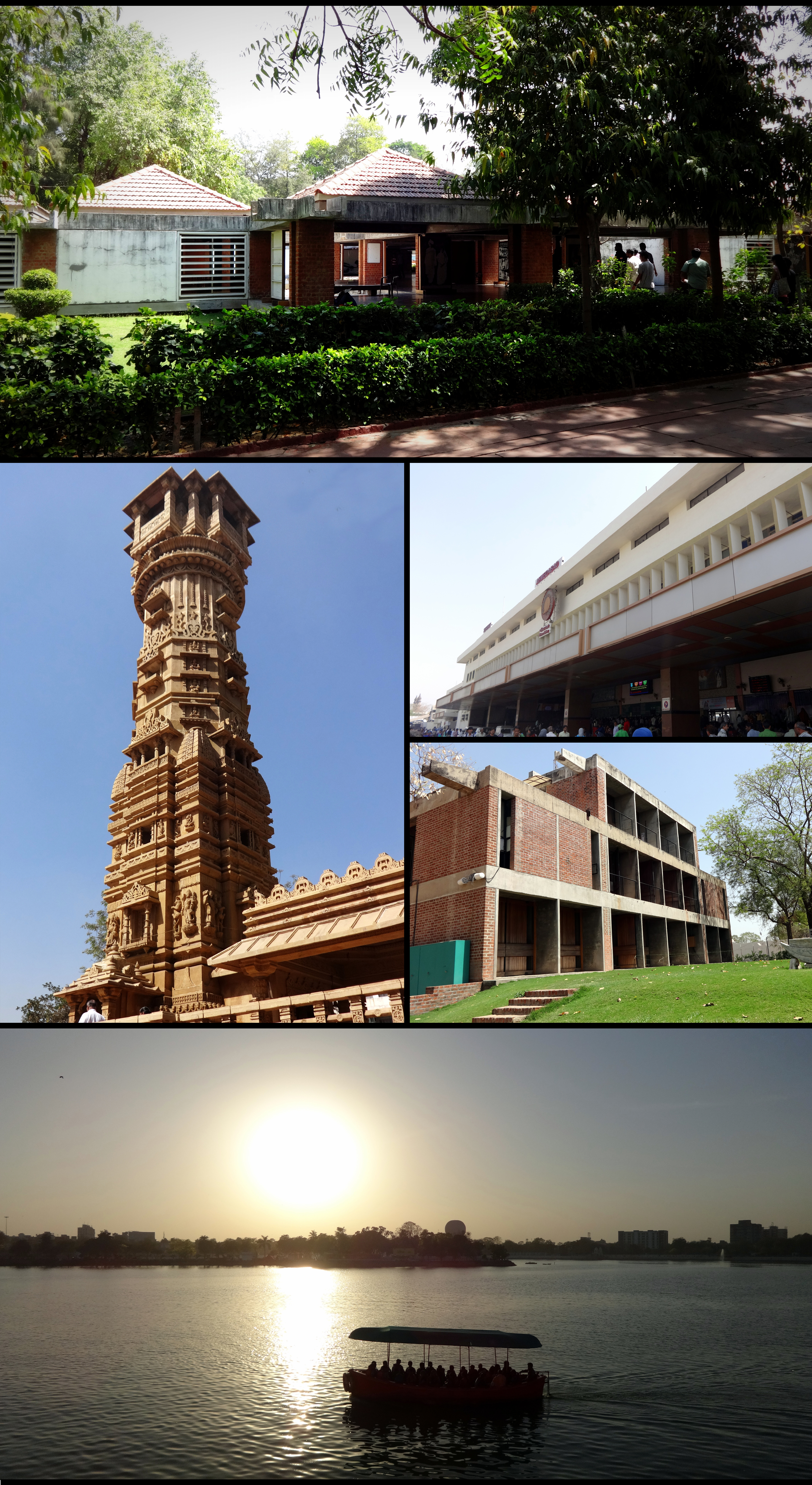 From top, clockwiseː Gandhi Smarak Sangrahalay, Ahmedabad Railway Station, CEPT University, Kankaria Lake and Kirti Stambh at Hutheesing Jain Temple.